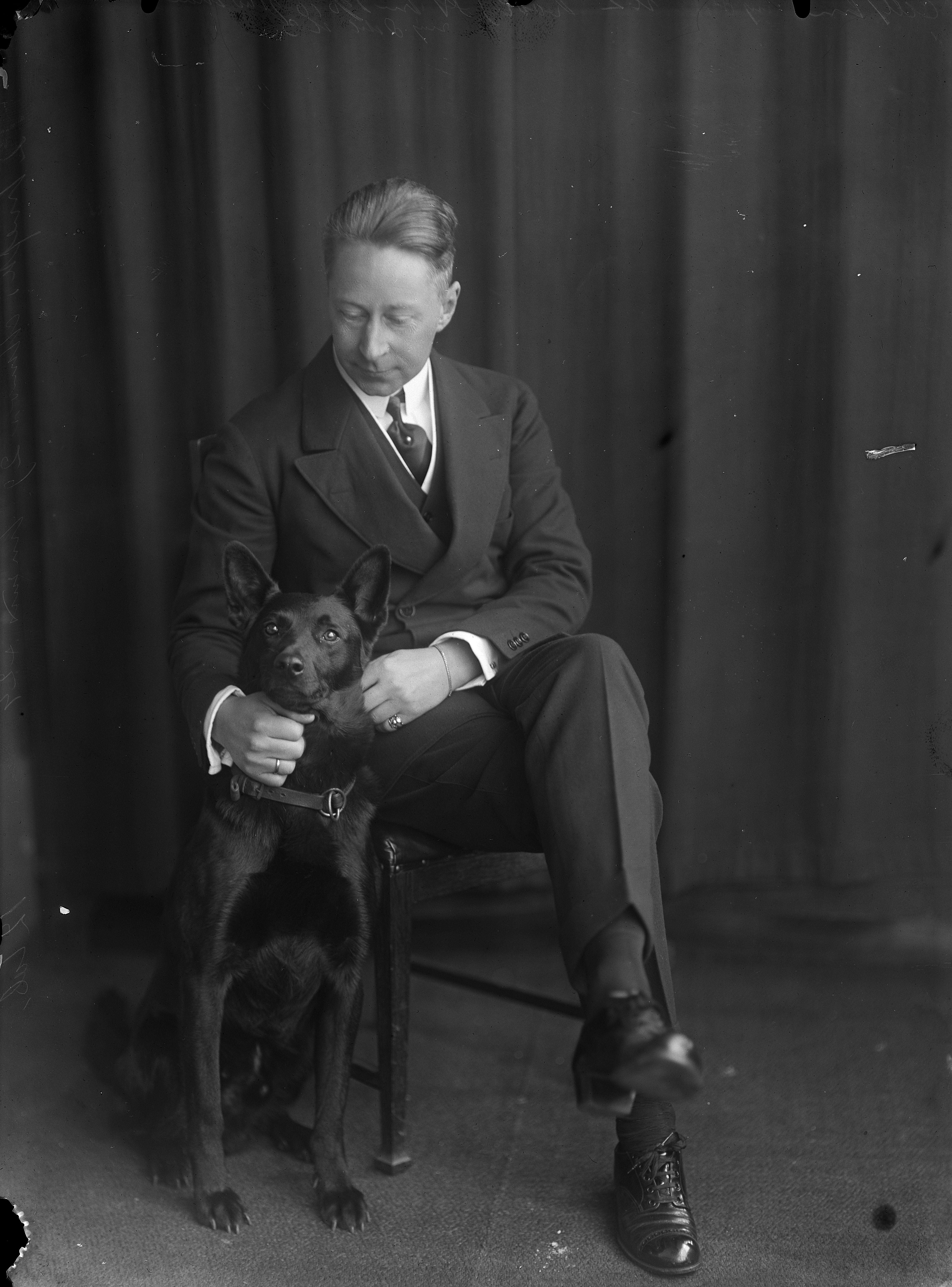 Photograph of German Kronprinz Wilhelm with his dog, by Jacob Merkelbach (1877-1942)